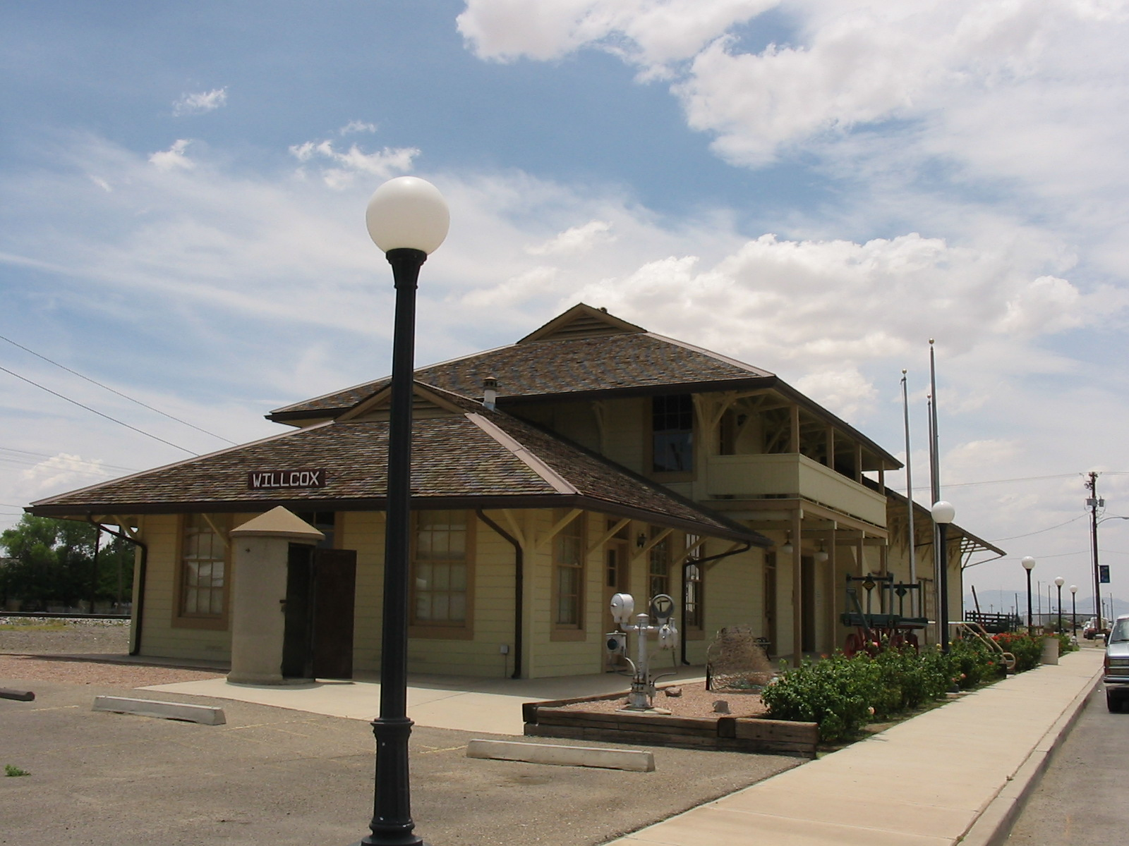 Willcox town hall, a former Southern Pacific Railroad station.. taken by me, June 24, 2006